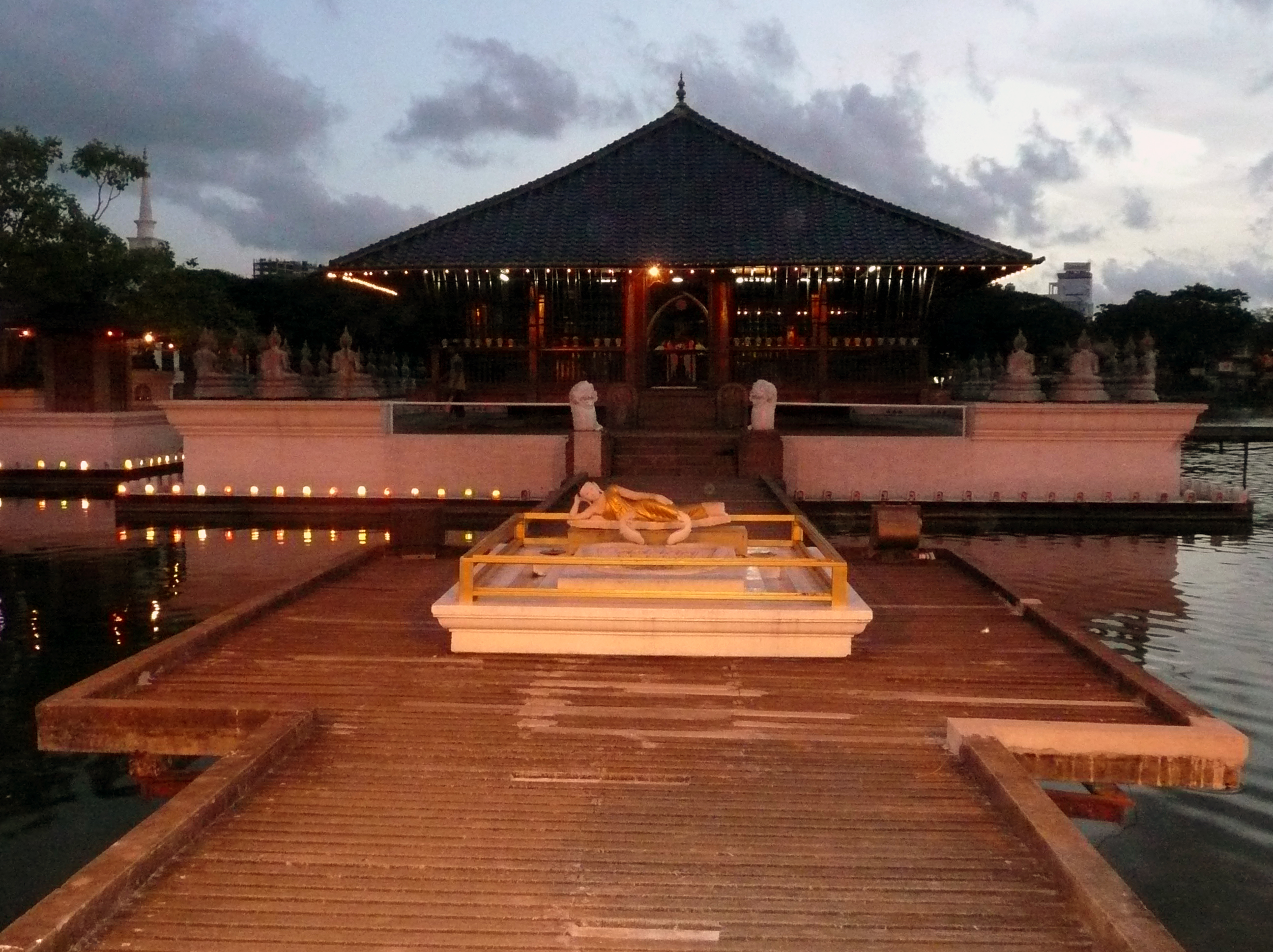 seema malaka temple, colombo